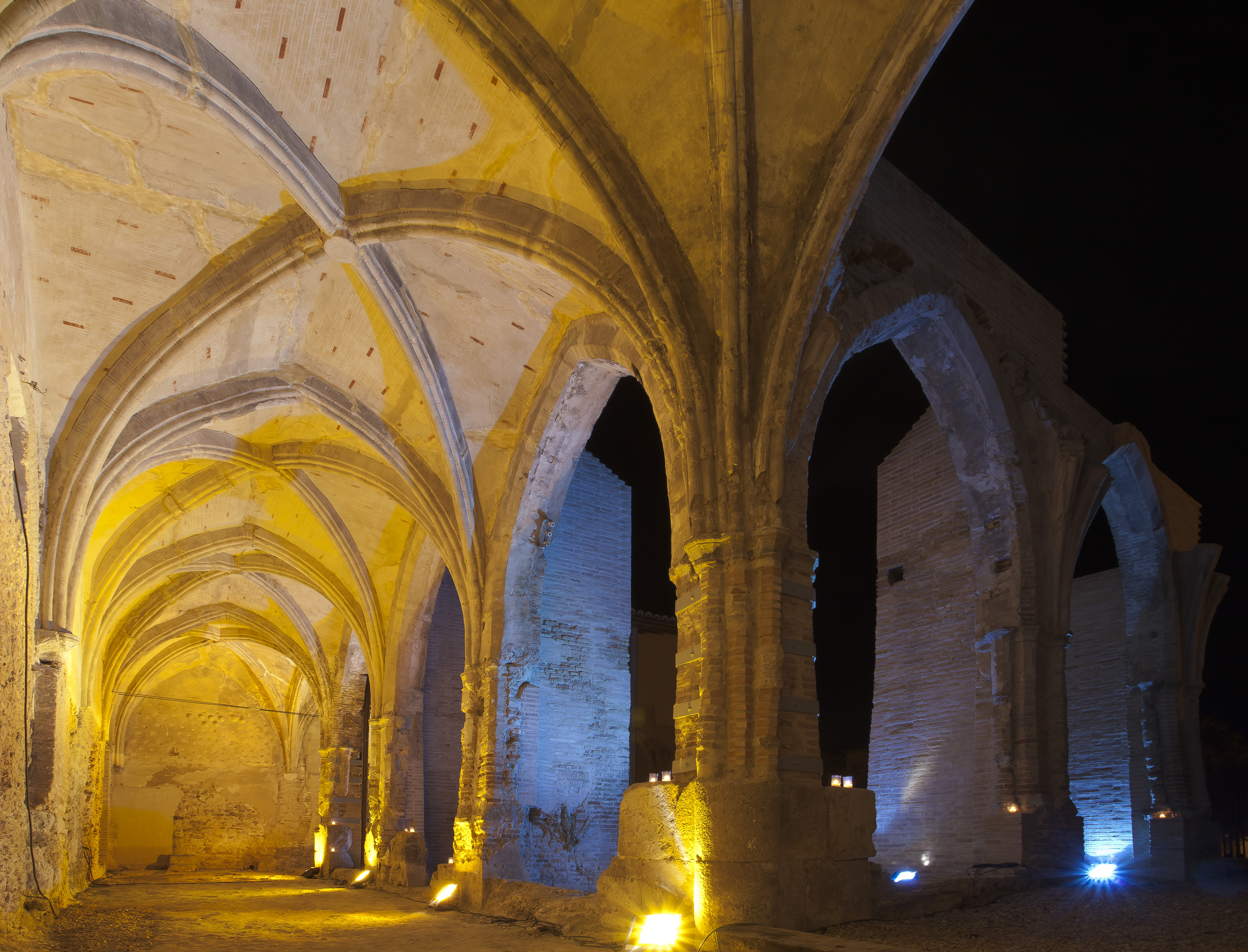 Cloister of the Collegiate of the Santo Sepulcro, Calatayud, Spain